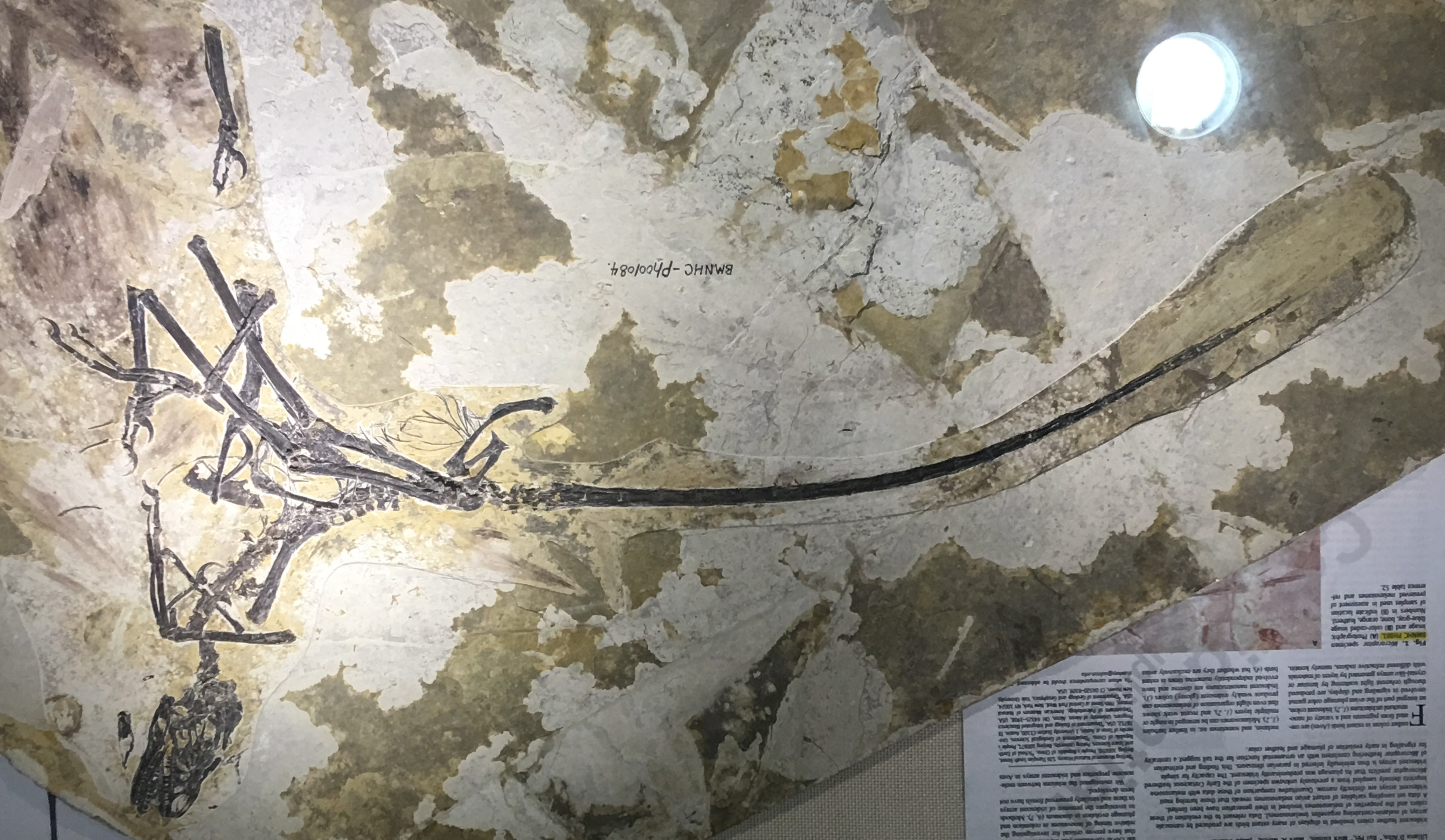 Image of specimen in the Beijing Museum of Natural History, China